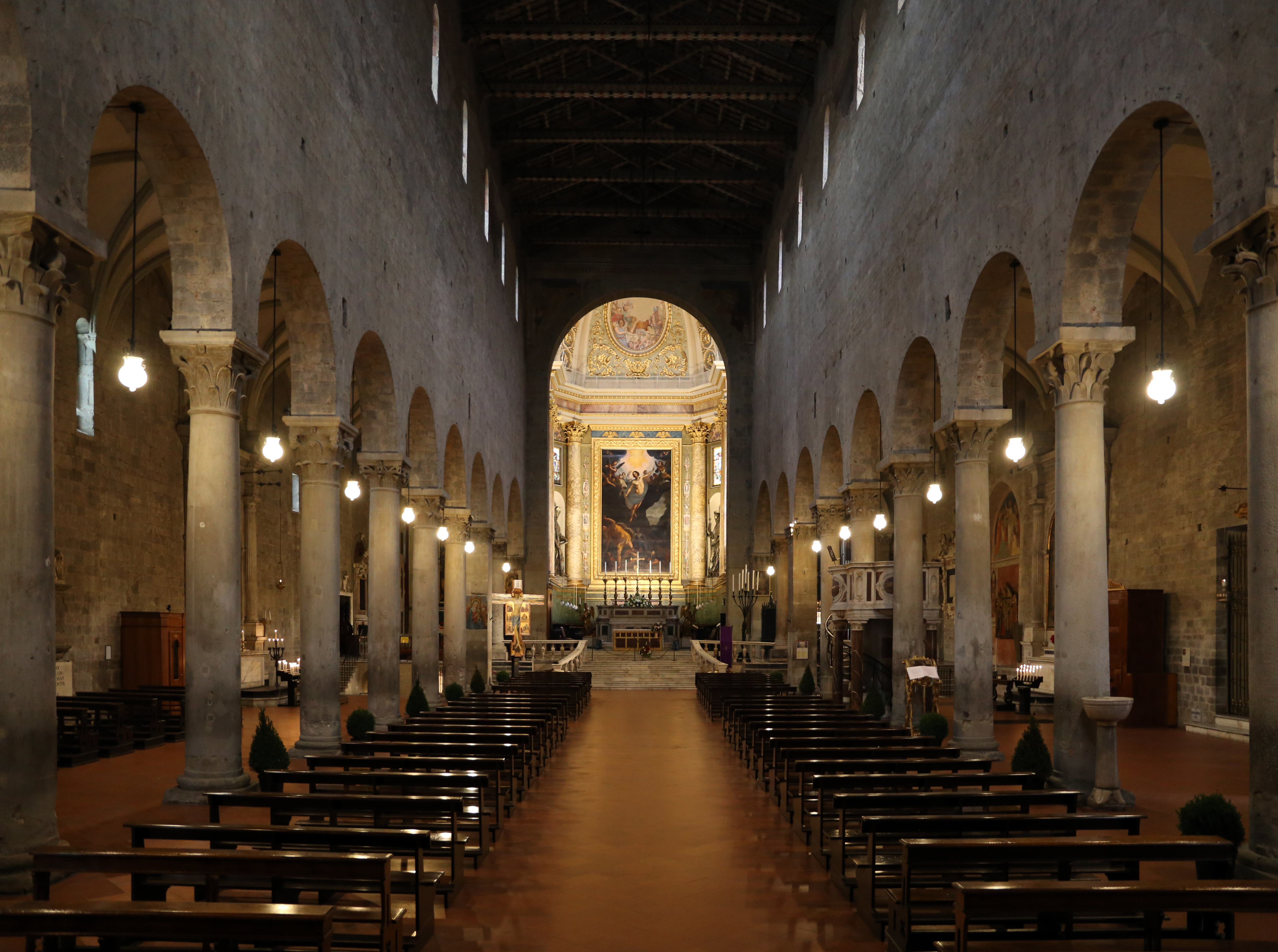 Duomo (Pistoia) - Interior